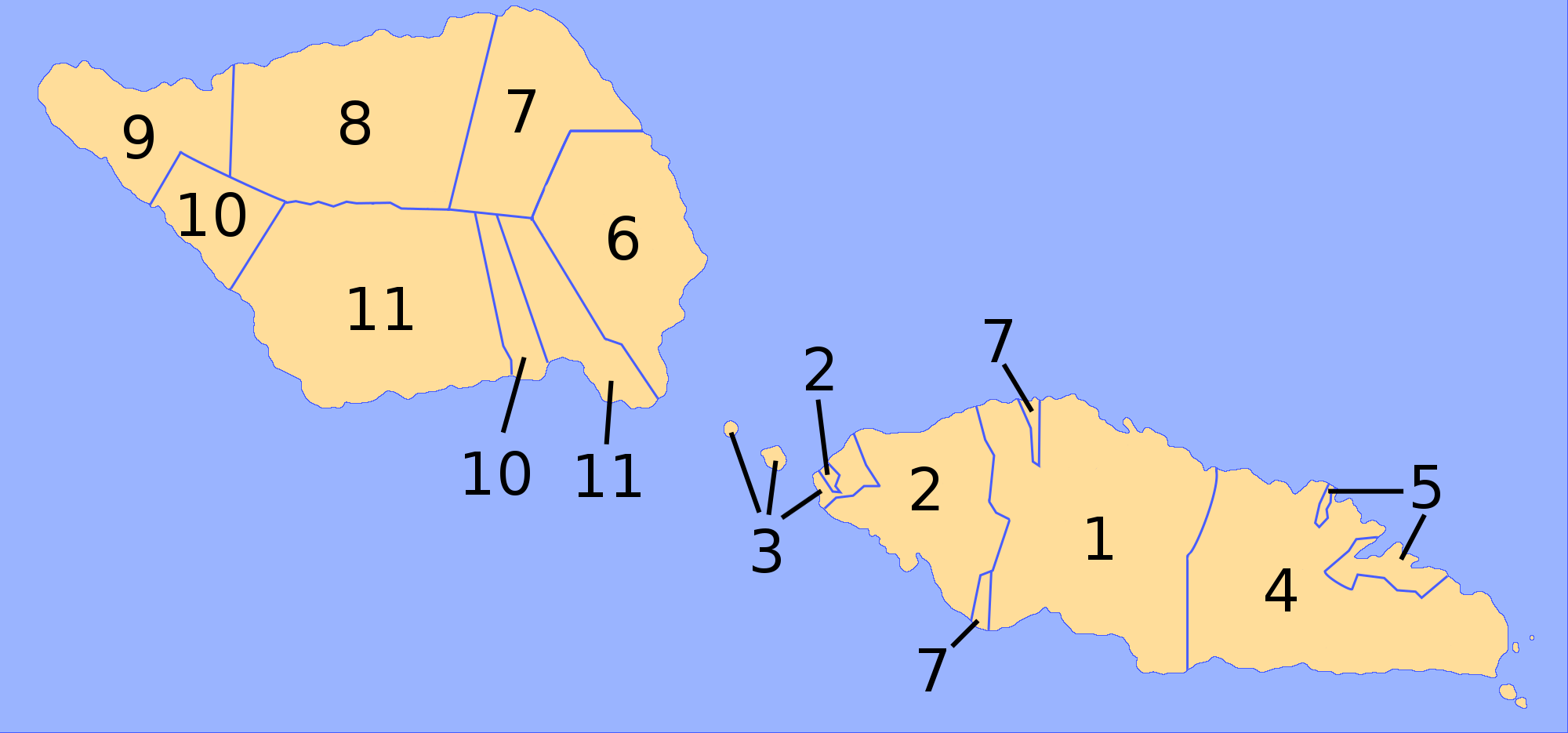 Districts of Samoa, based on File:Samoa_districts_numbered.png Higher resolution version, with more accurate district borders (based on borders of the constituencies contained in the districts) added. Used the numbering in second image below.